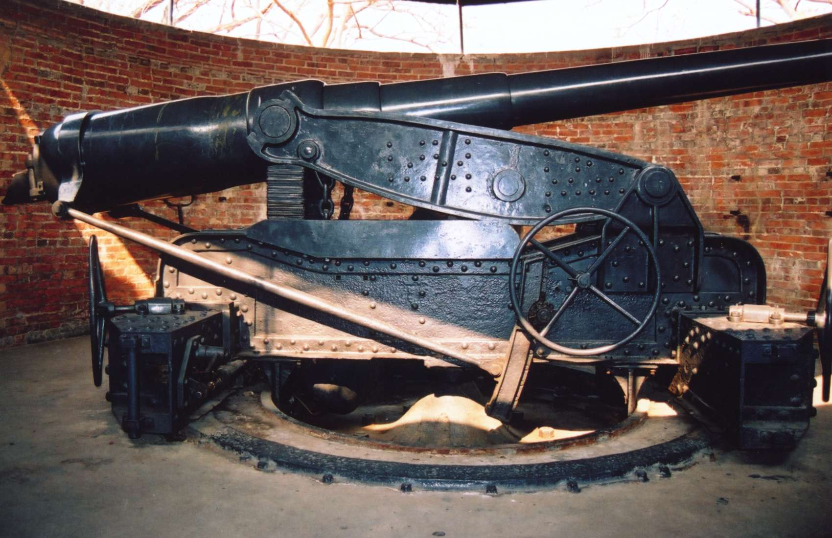 Armstrong cannon in Chulachomklao fort, Samut Prakan, Thailand.Comment: This appears to be an Elswick (Armstrong) BL 6-inch Mk V gun on Armstrong Mk I disappearing carriage.